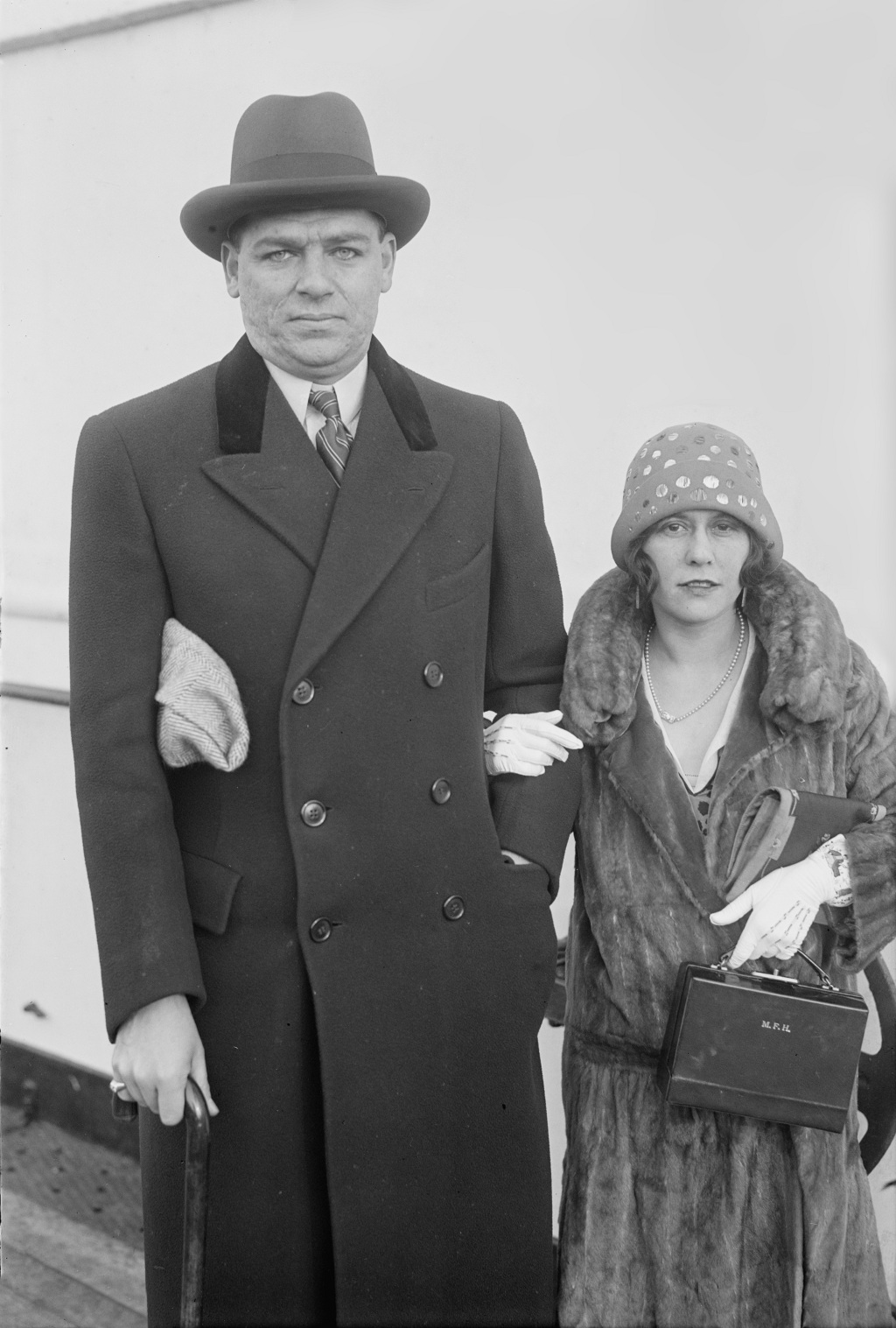 Oscar Hammerstein and his first wife, Myra Finn. (Note case with the initials "MFH" in woman's left hand.)